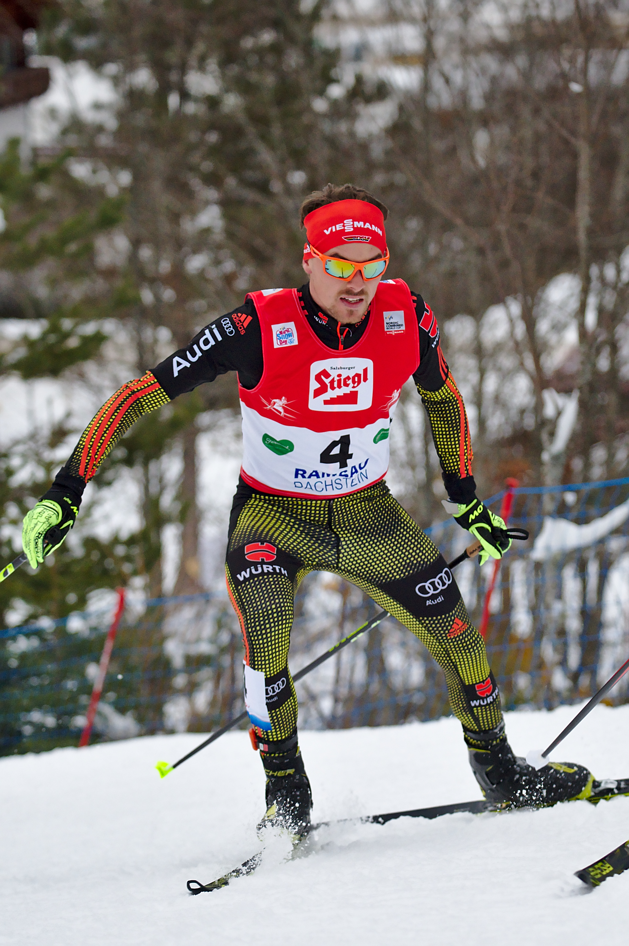 Fabian Rießle (GER)